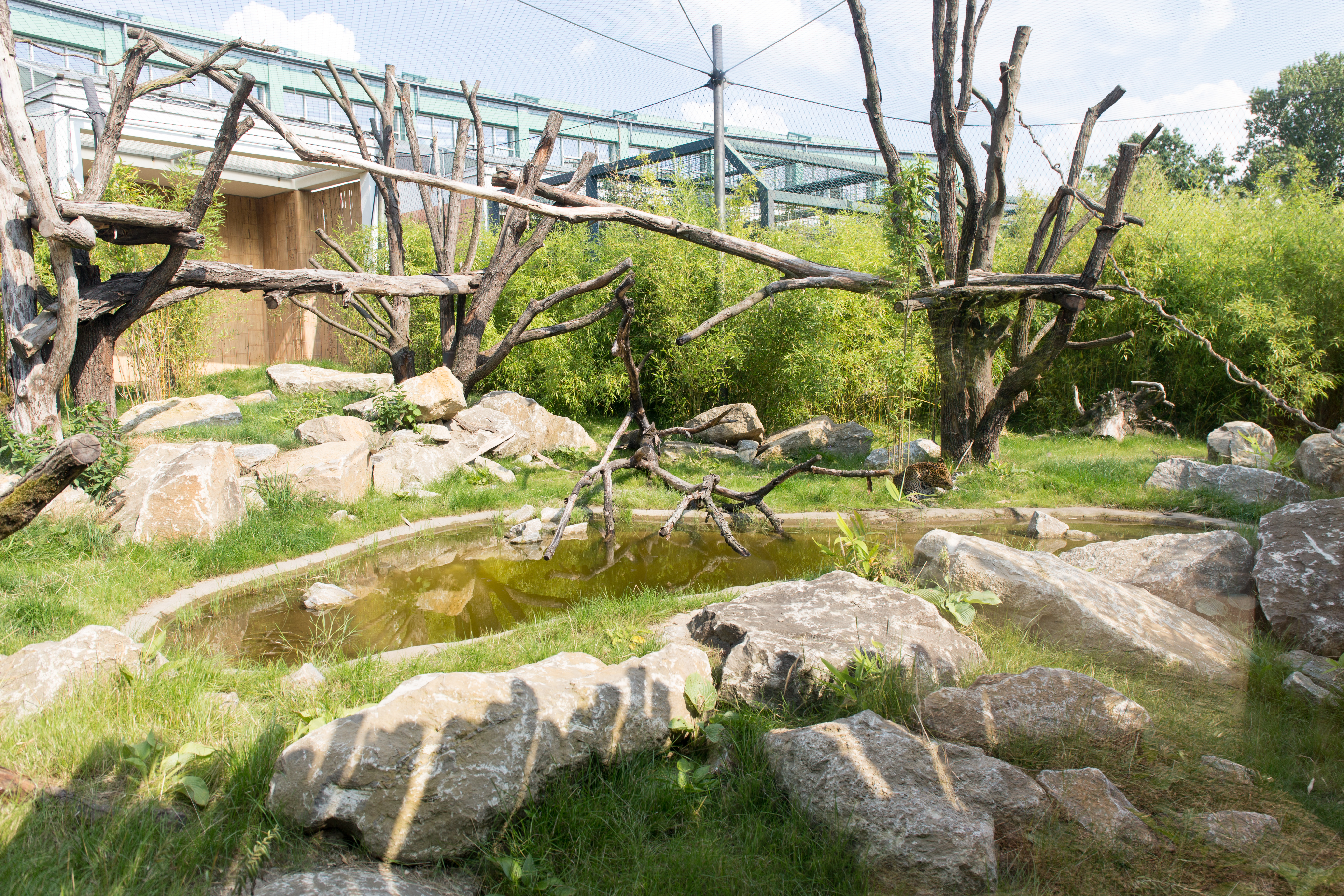 Alfred-Brehm-Haus after renovation 2020